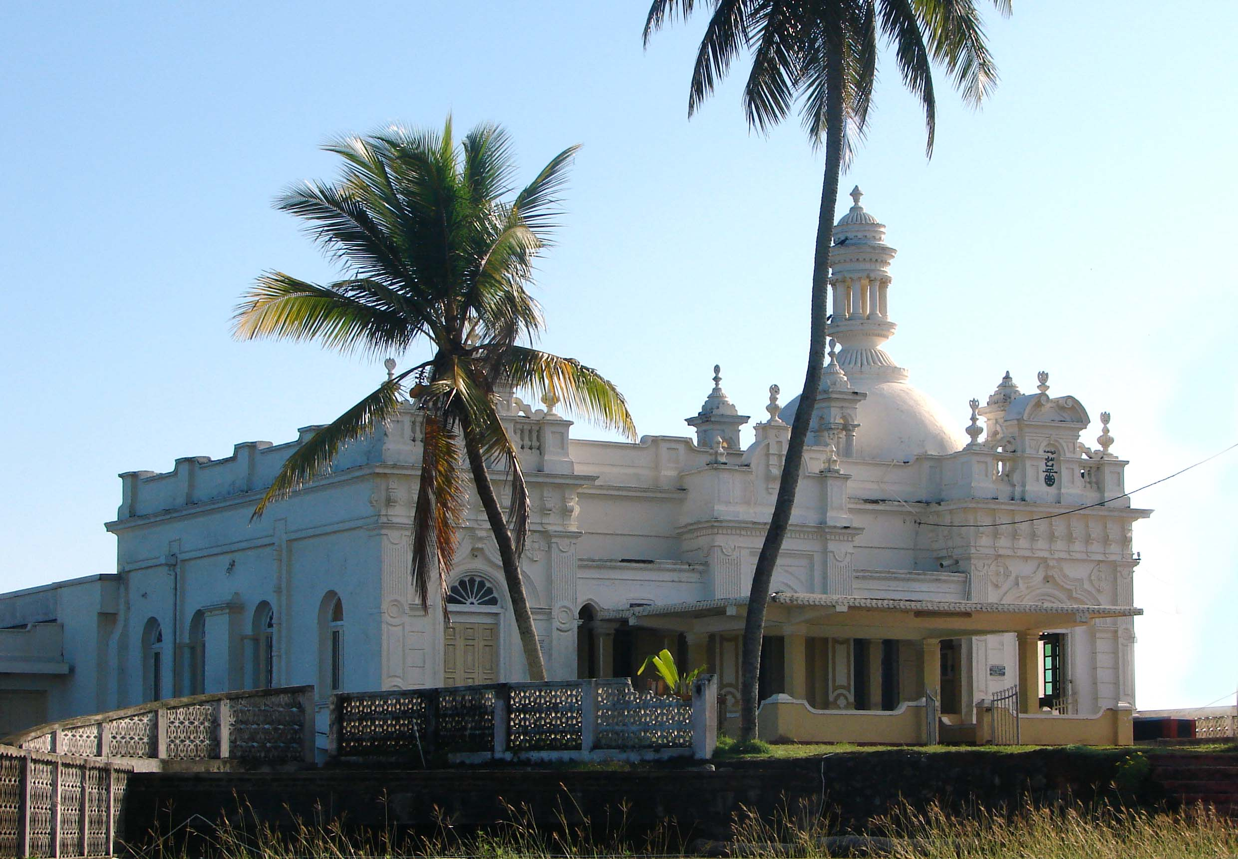 Ketchimalai Mosque- Beruwala, Sri Lanka